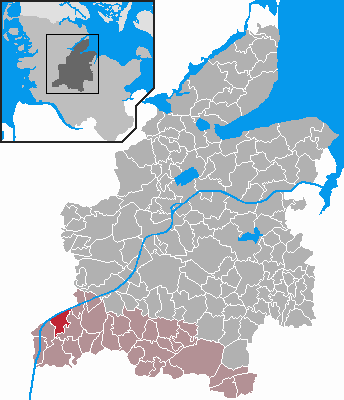 Locator maps of municipalities in Schleswig-Holstein - District Rendsburg-Eckernförde